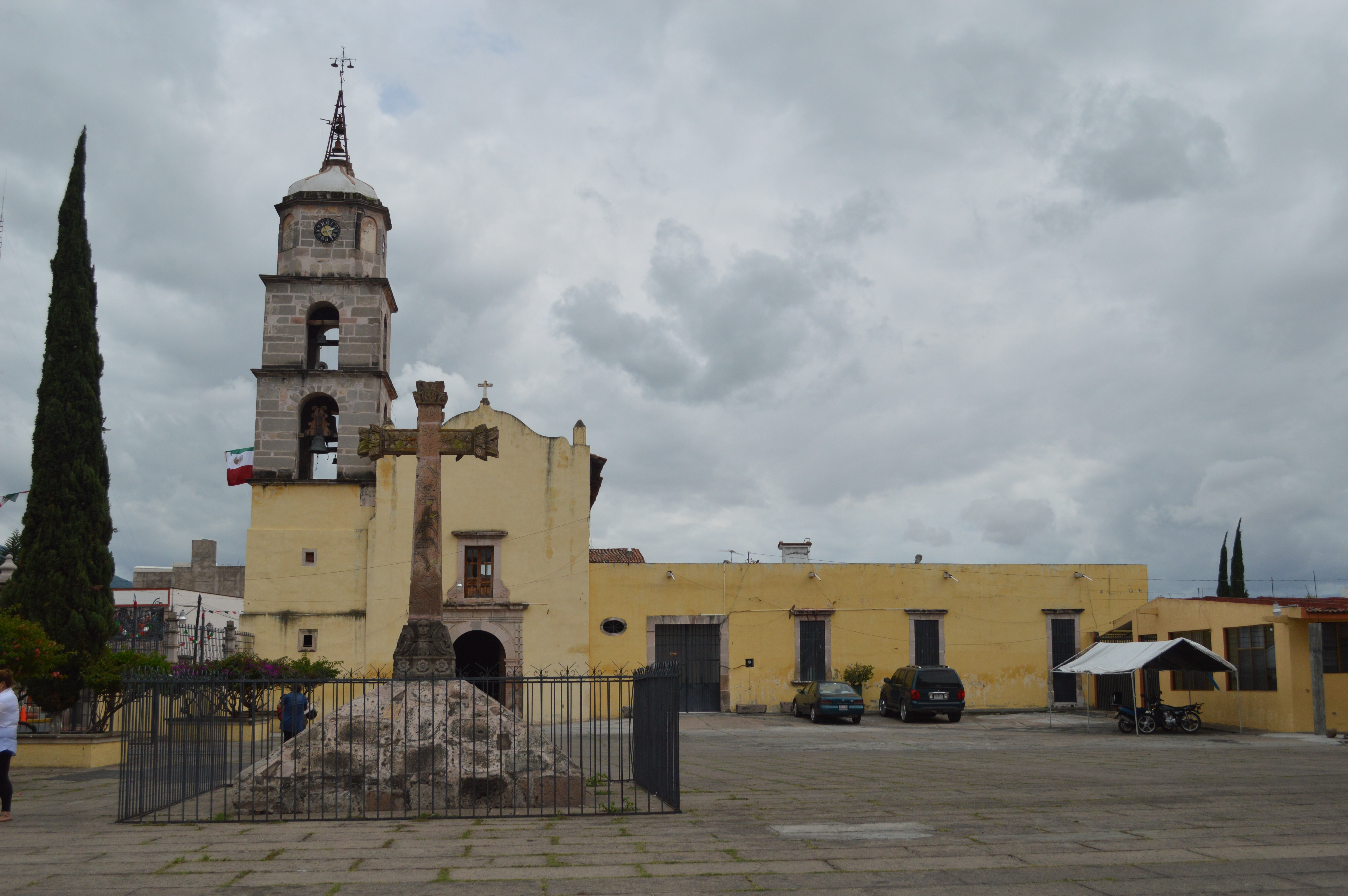 View of the San Jerónomo Parish in Huandacareo, Michoacan